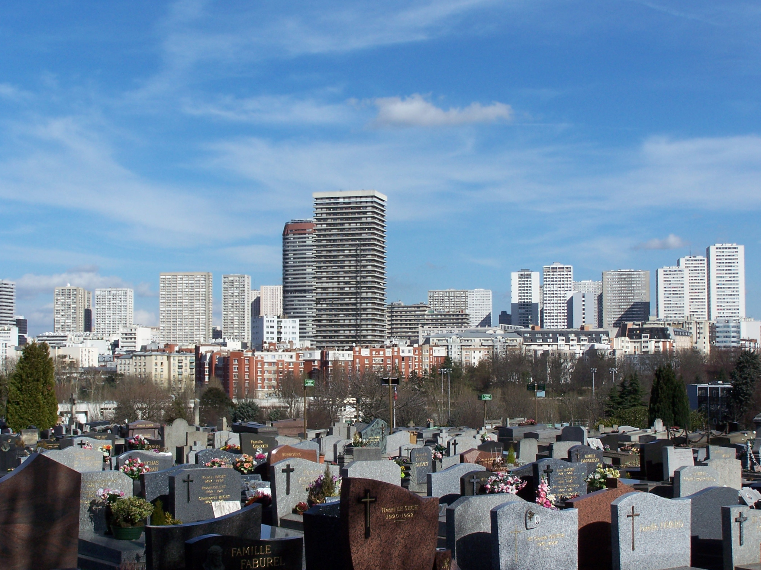 Vue générale du cimetière de Gentilly, à son point culminant